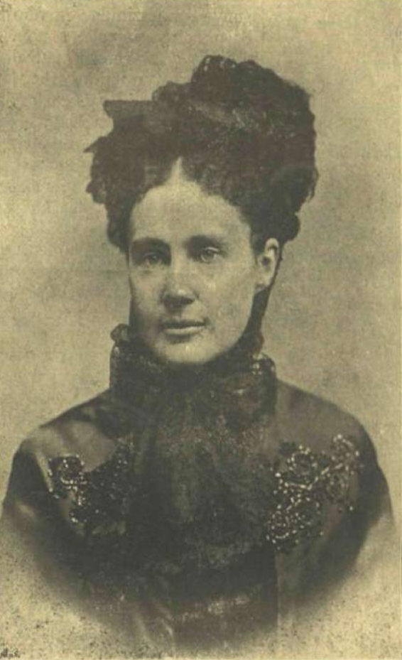 Archduchess Maria Theresia of Austria